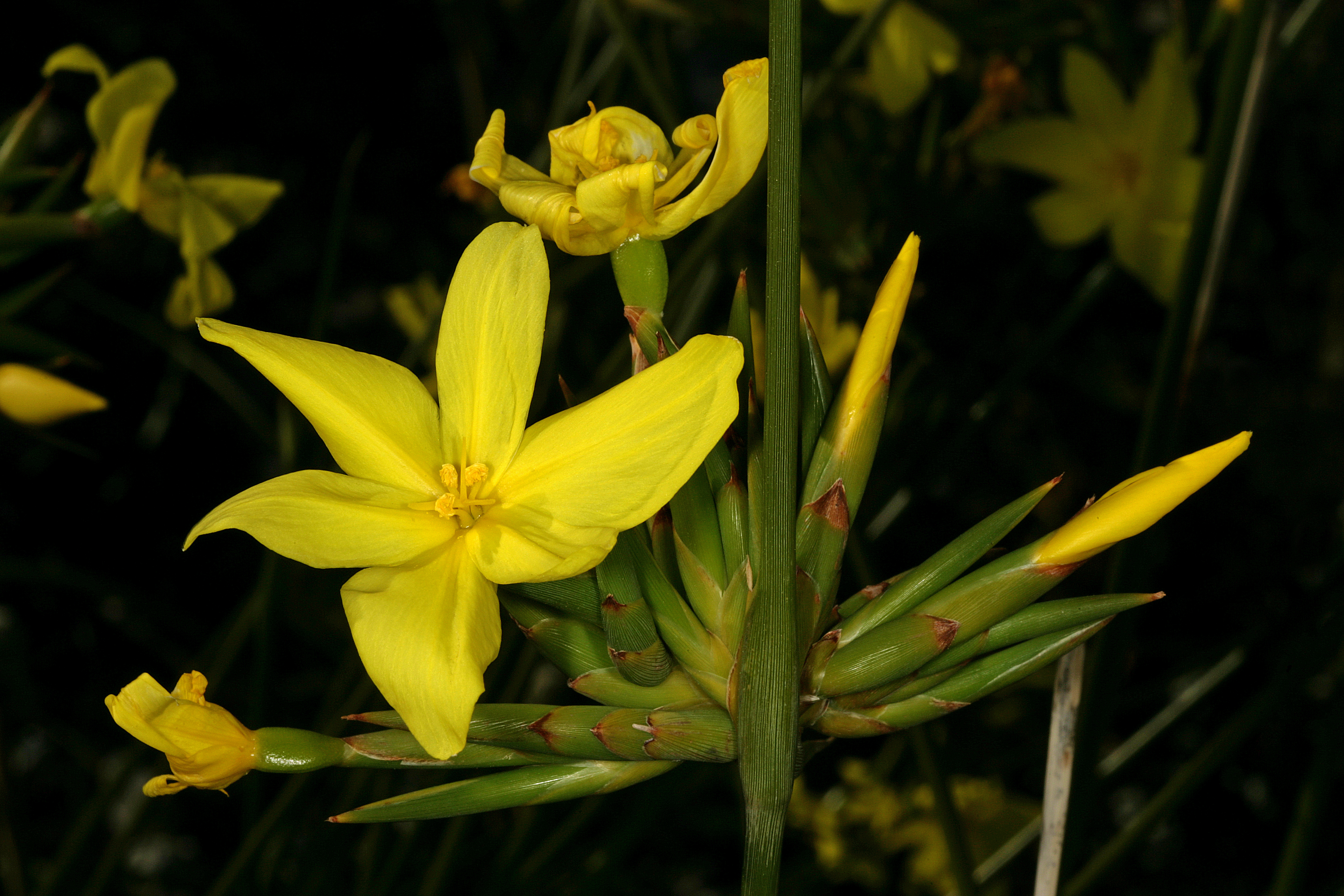 Bobartia longicyma, flower cluster; recently burned fynbos, Hoy's Koppie, Hermanus, Western Cape, South Africa